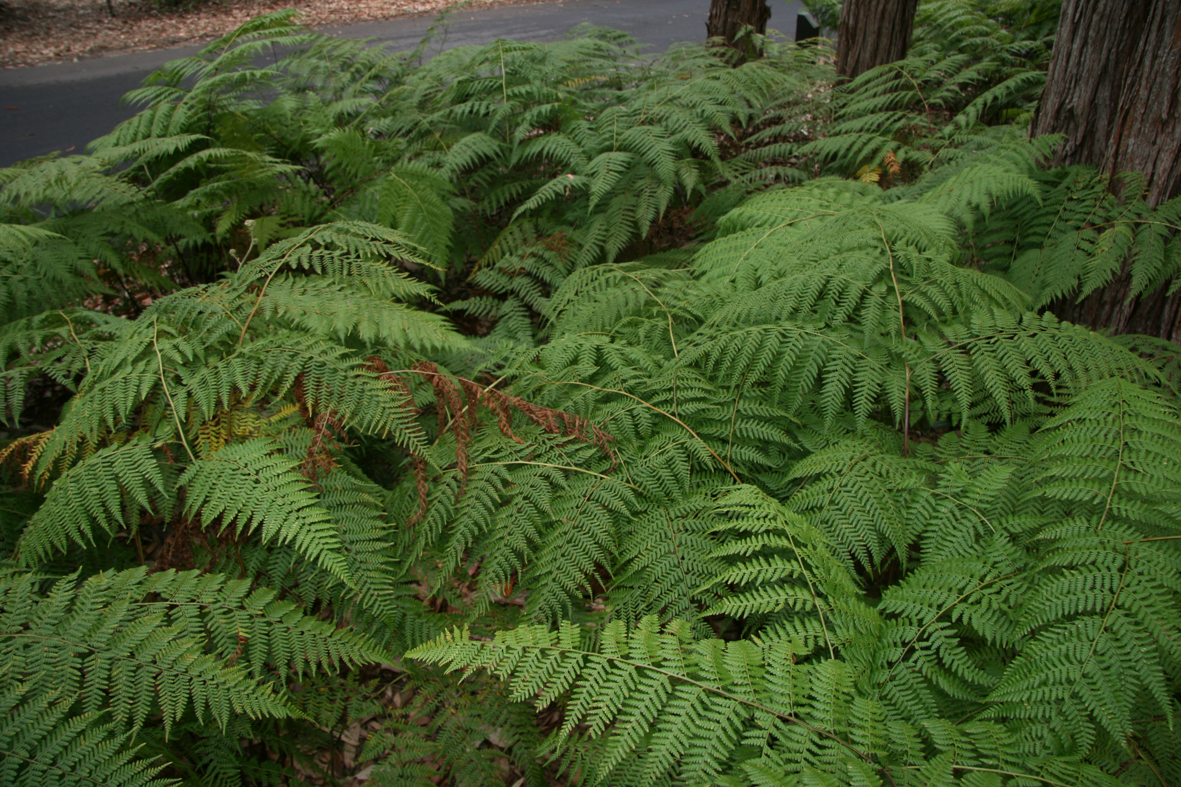 Calochlaena dubia, Maroochy Regional Bushland Botanic Gardens